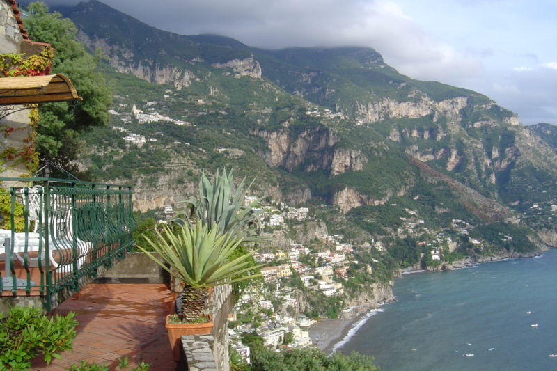 The view of Positano and surroundings from Le Agavi.